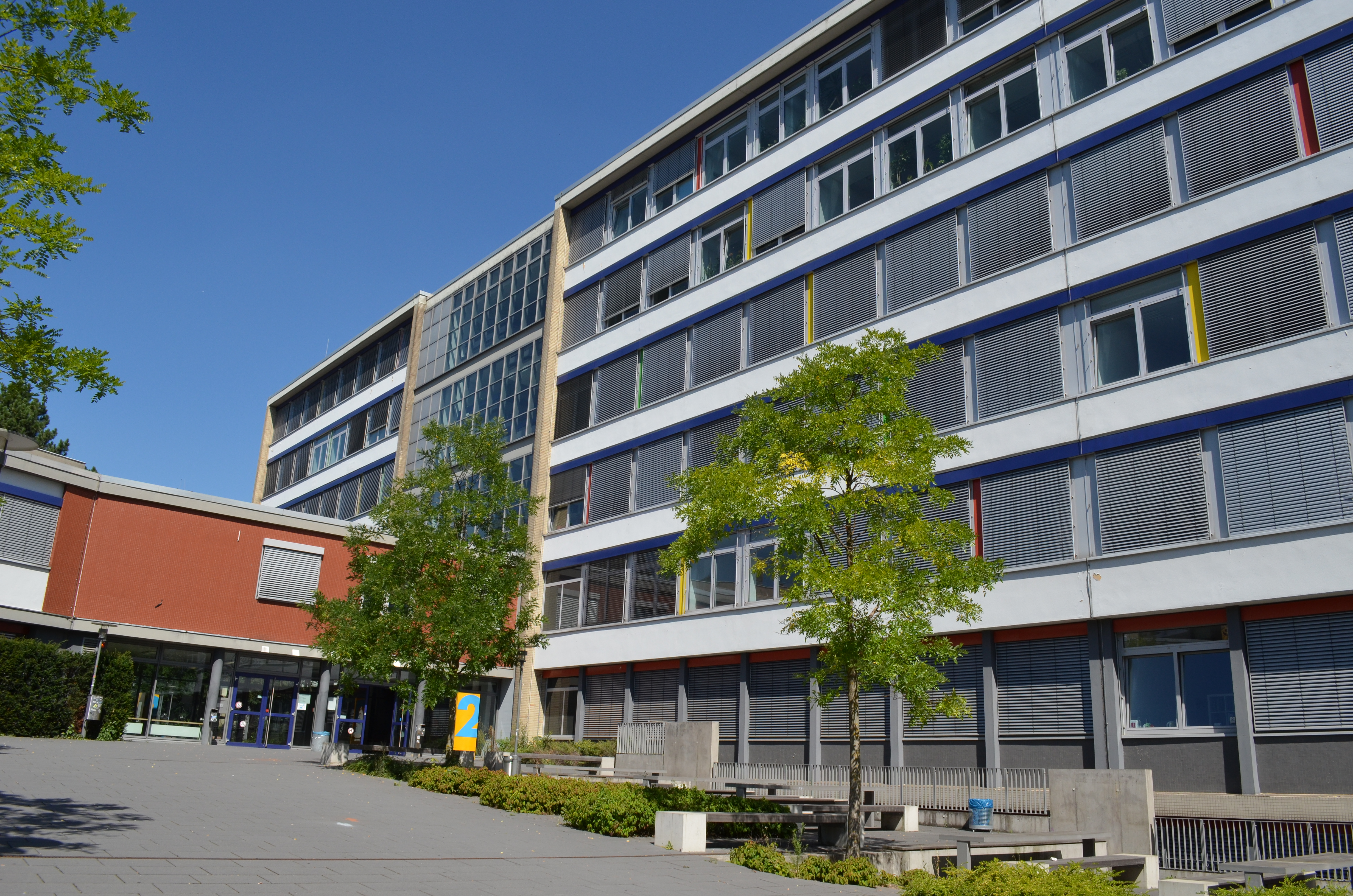 Fachhochschule Frankfurt am Main (FH FFM) - University of Applied Sciences: Building 2.